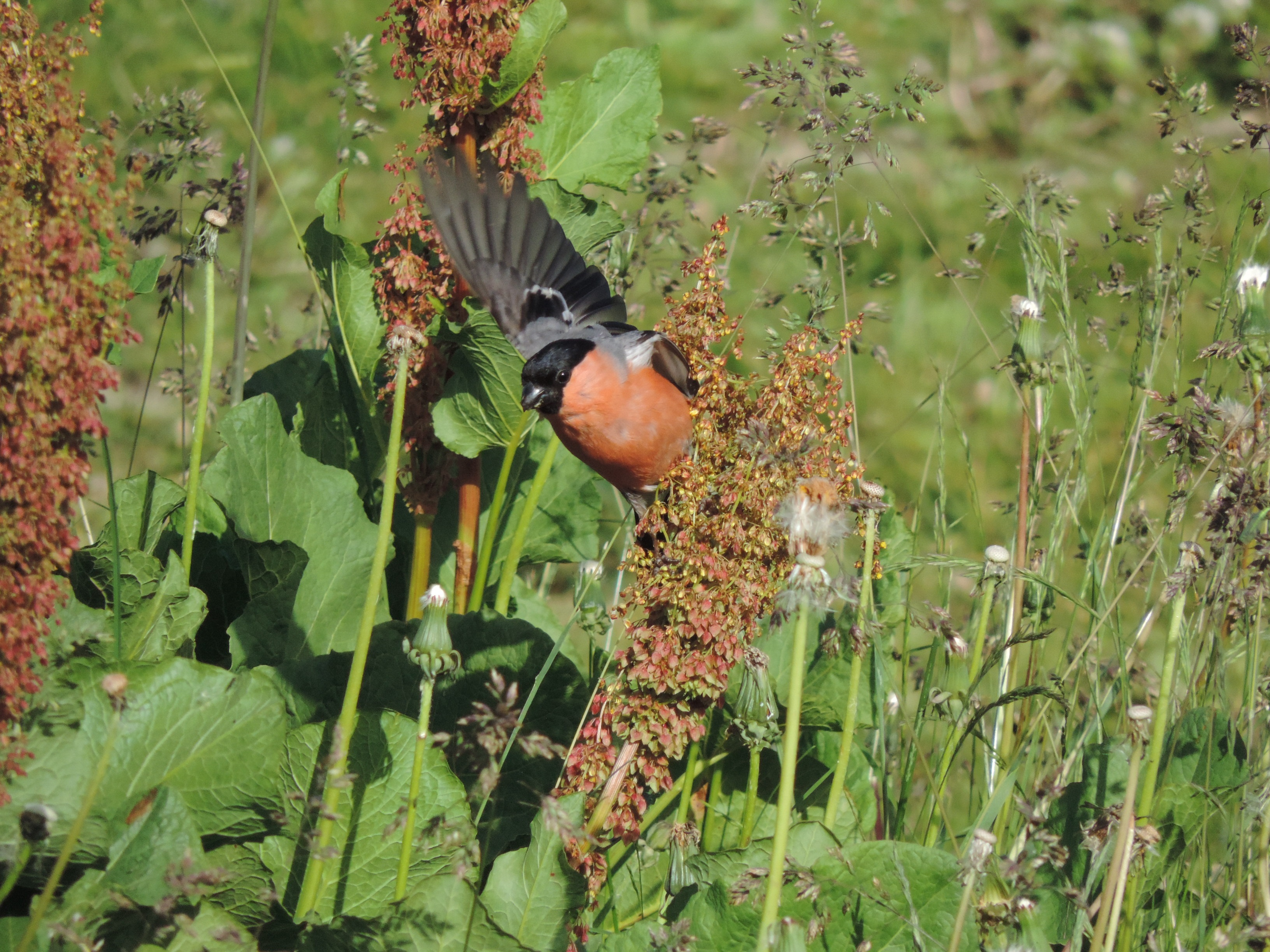 Male bullfinch (Pyrrhula pyrrhula) near Bezbog lake, Pirin mountain, Bulgaria